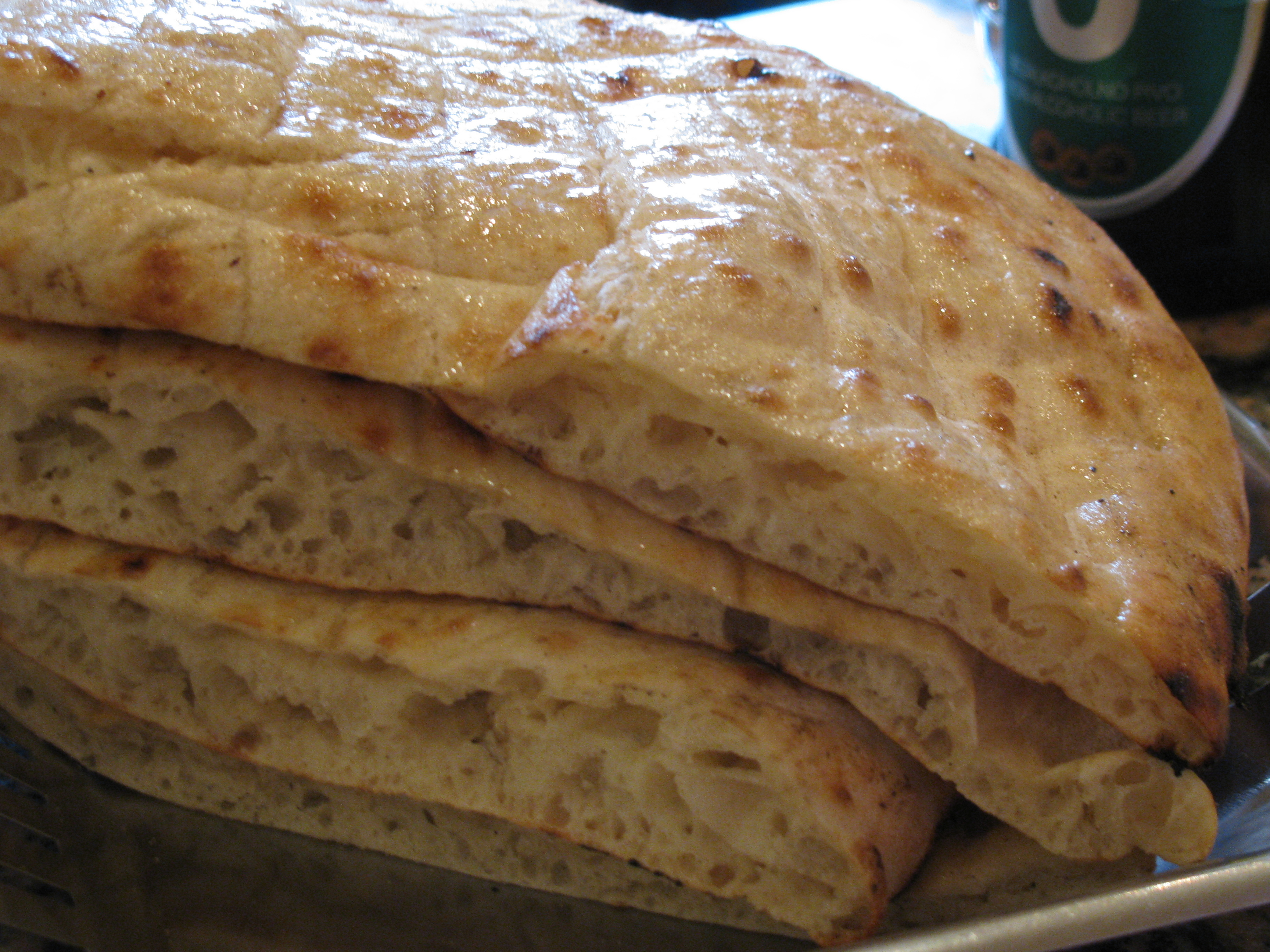 Sarajevski somun (pita, bread) from Sarajevo, Bosnia